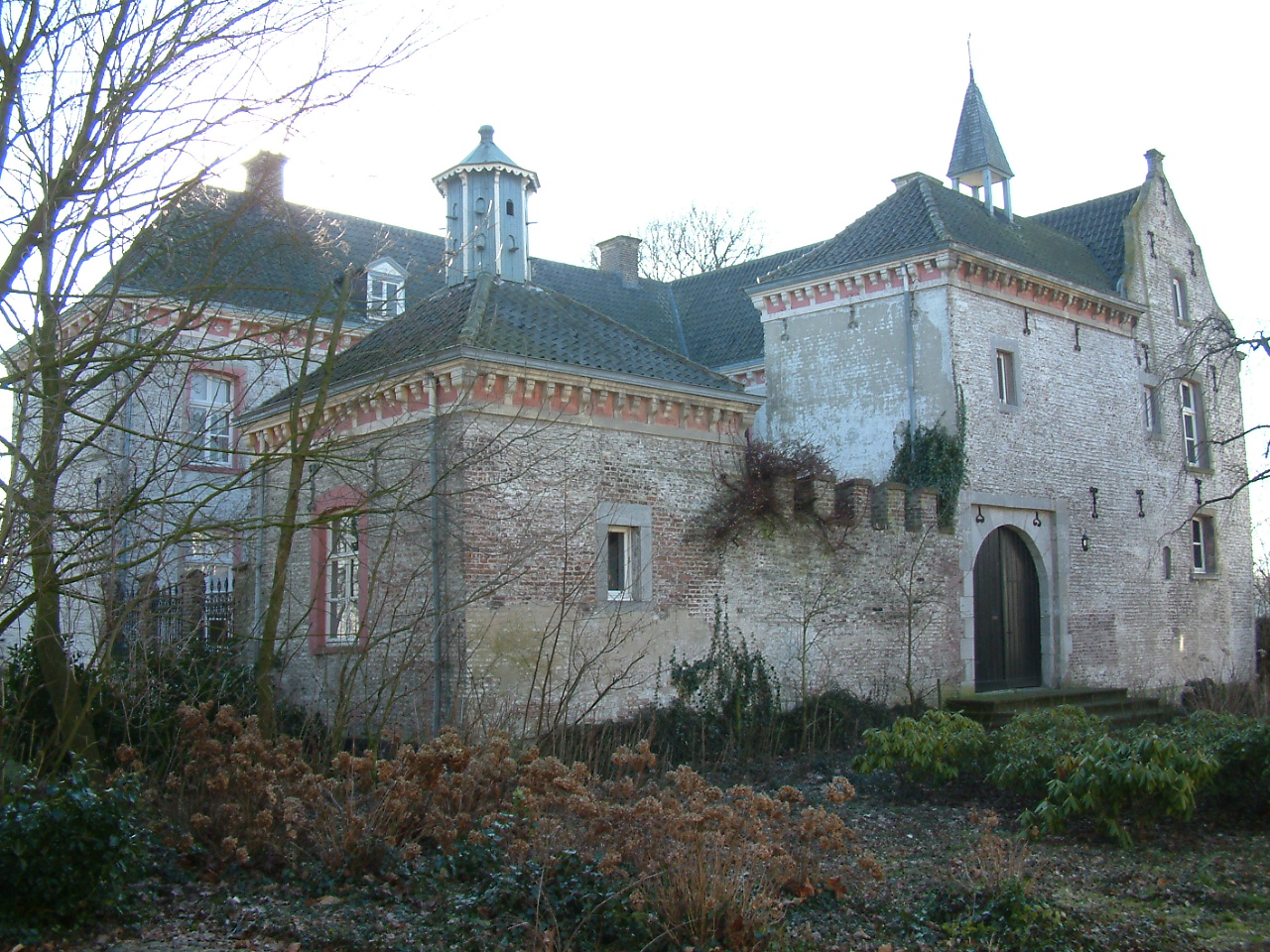 Ten Hove Castle in Grathem, The Netherlands